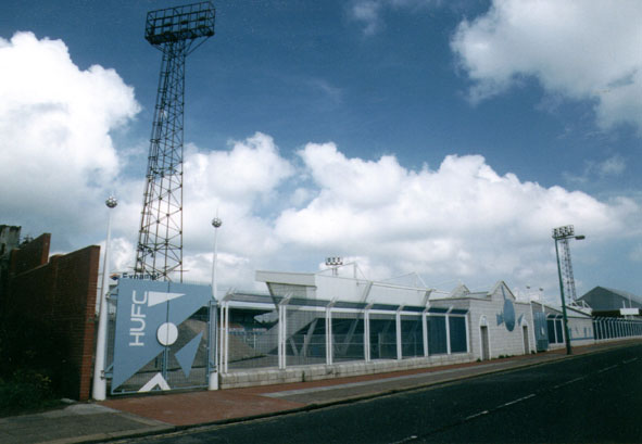 Outside Victoria Park, near to Hartlepool, Great Britain.